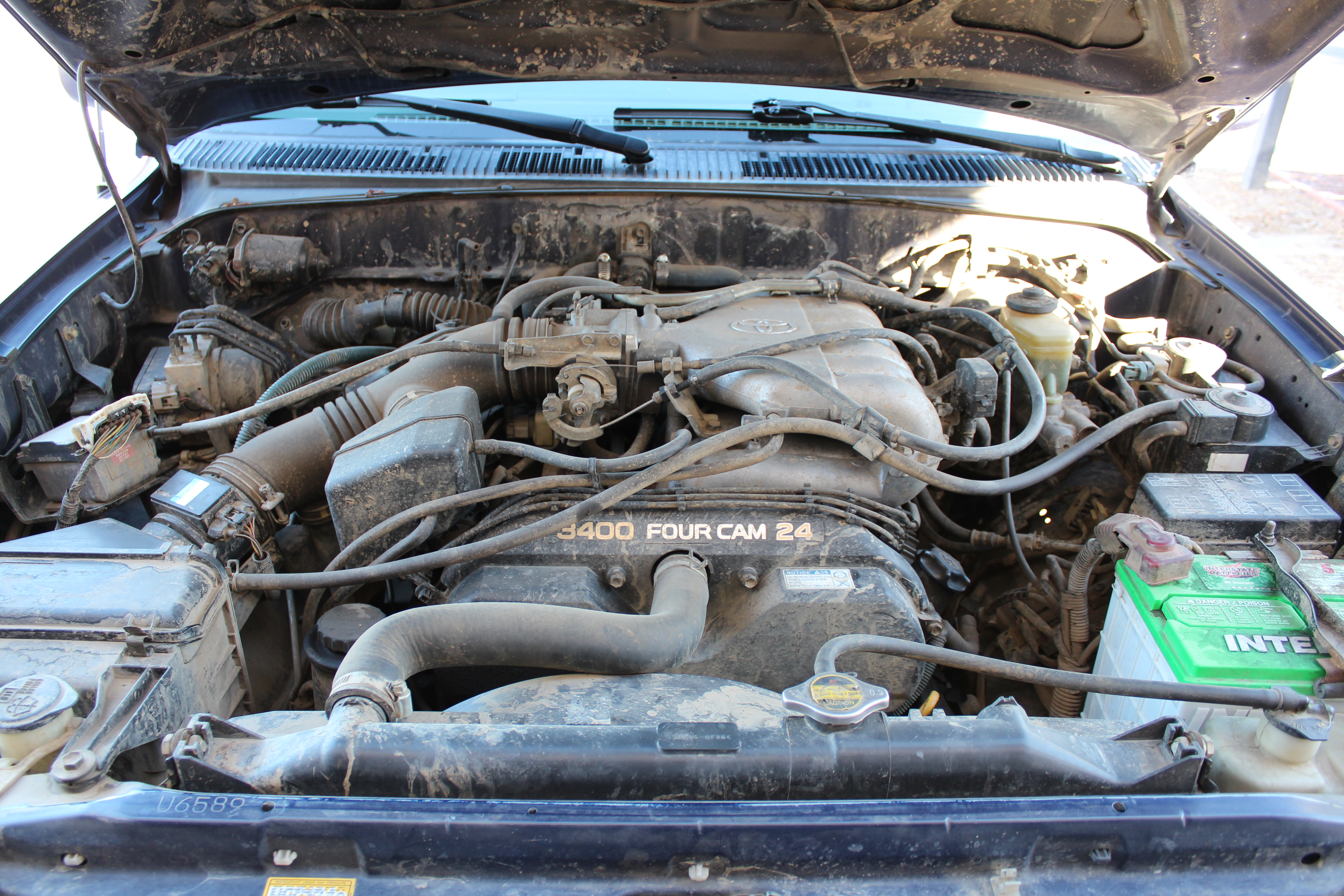 1997 Toyota 4Runner 5VZ-FE engine.